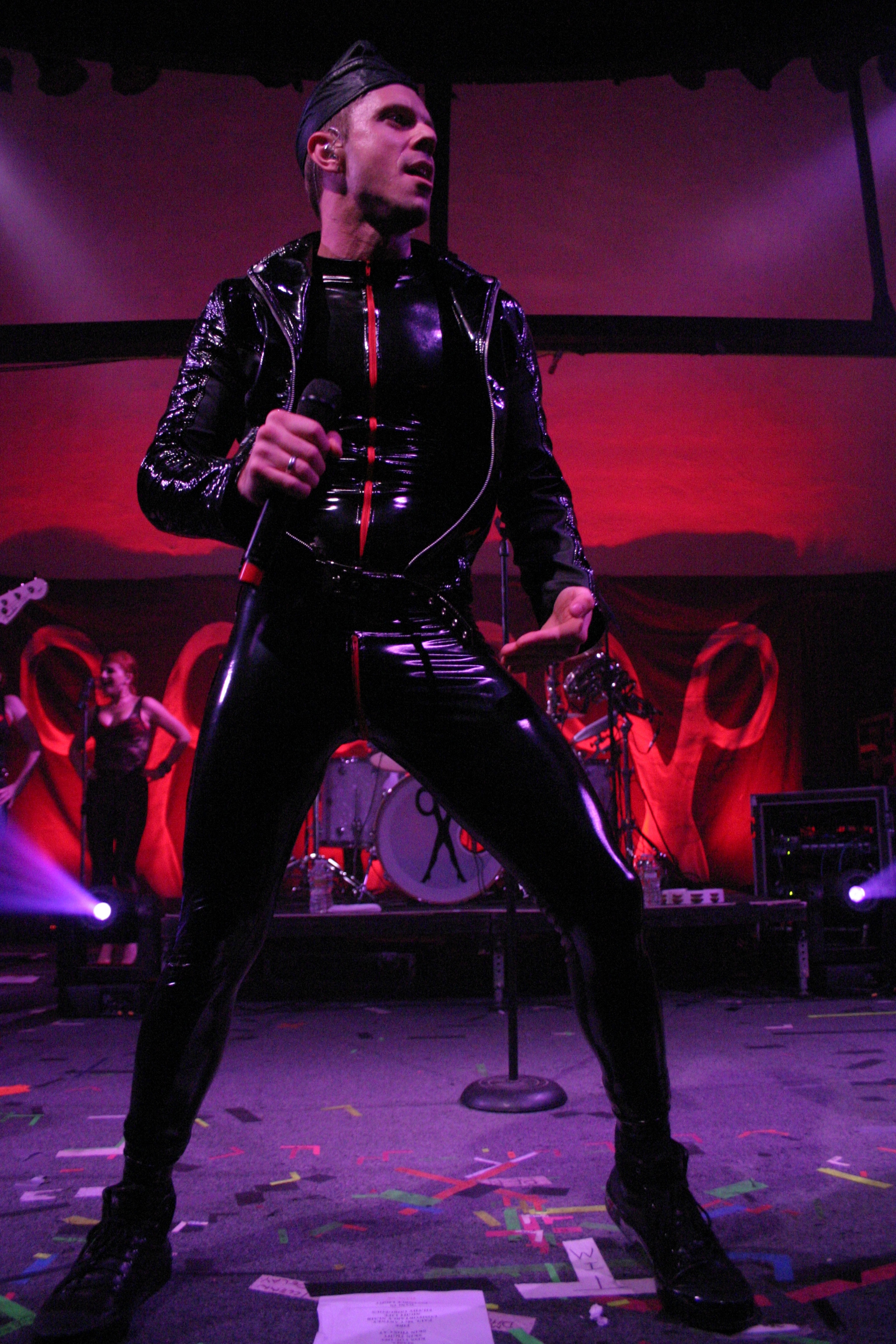 Jake Shears of the Scissor Sisters performing in Tulsa, Oklahoma at Cain's Ballroom, March 16th, 2011.